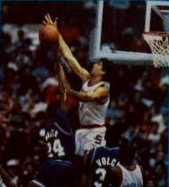 Syracuse University center Rony Seikaly (center) pictured contesting a basketball shot from Seton Hall forward Darryl Walker (left) during an NCAA Division I men's basketball game.